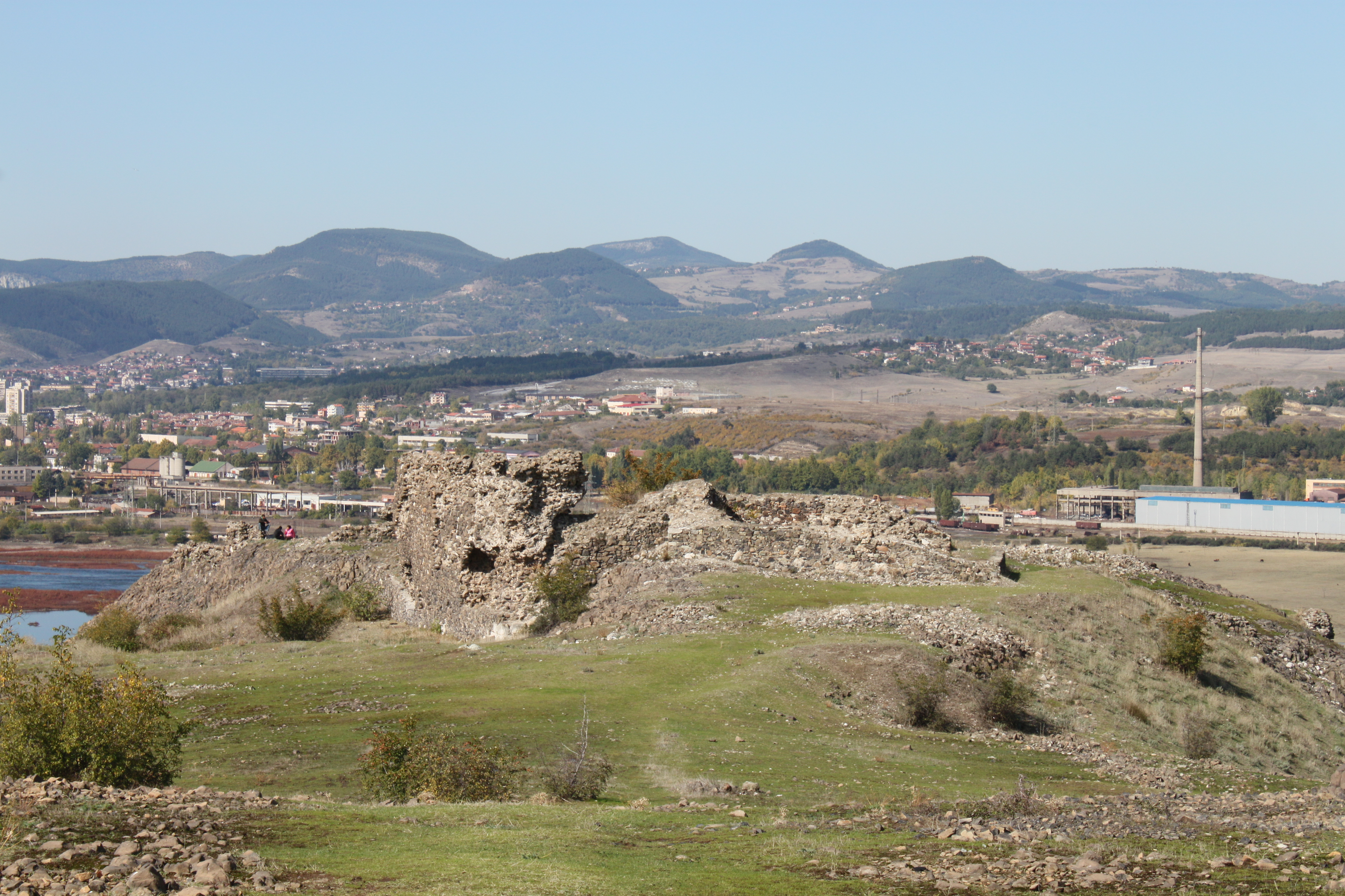 Vishegrad fortress, Kardzhali , Bulgaria